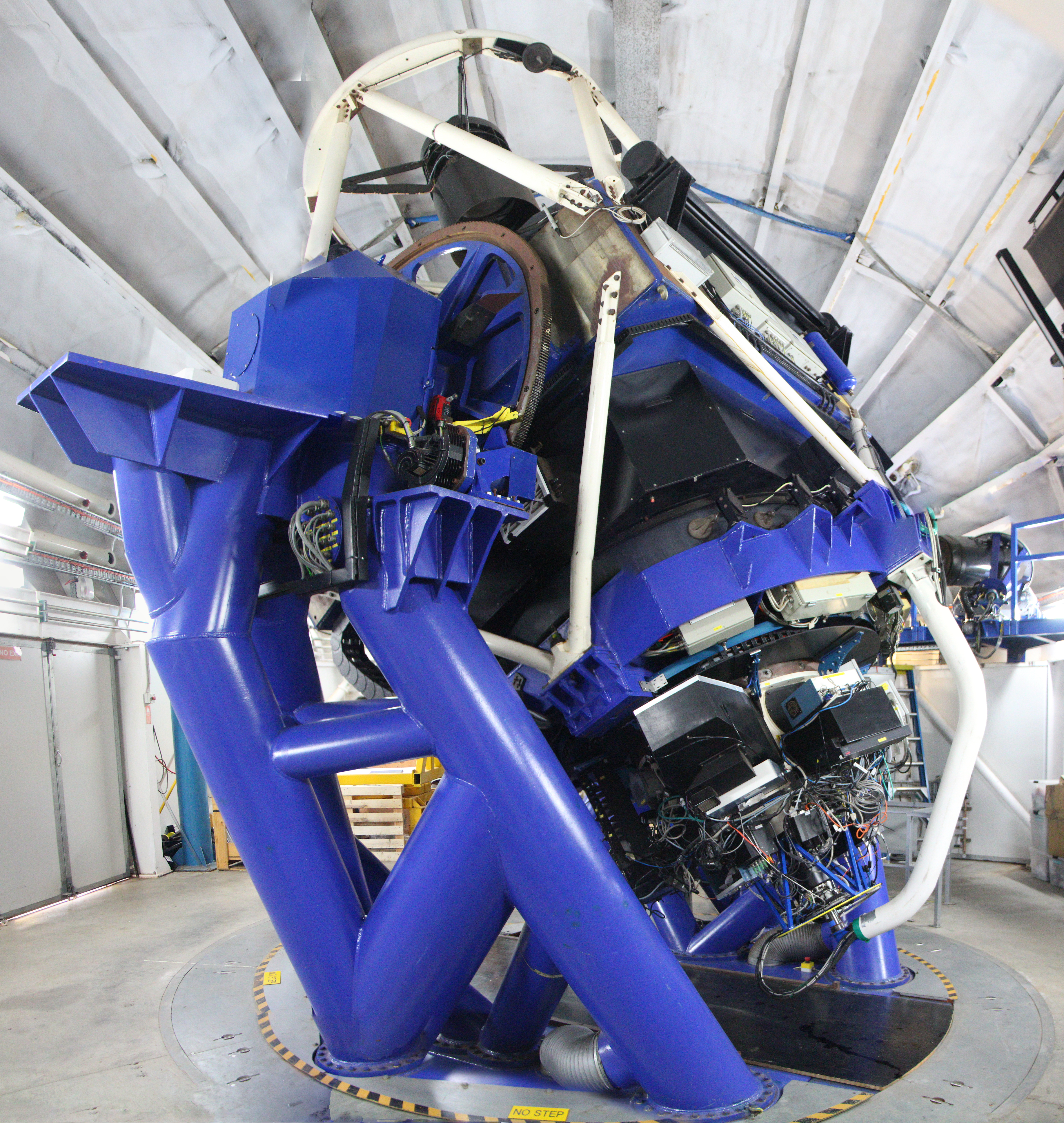 The Faulkes Telescope South is located at Siding Spring Observatory in New South Wales, Australia. It is a 2 m (79 in) Ritchey-Chrétien telescope, designed to be operated remotely with the aim of encouraging an interest in science by young people. It is supported by an altazimuth mount. The telescope is owned and operated by LCOGT.